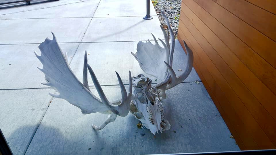 skulls and antlers of two bull moose who apparently died when their antlers got locked during a fight, on display at headquarters of Kenai National Wildlife Refuge, Alaska